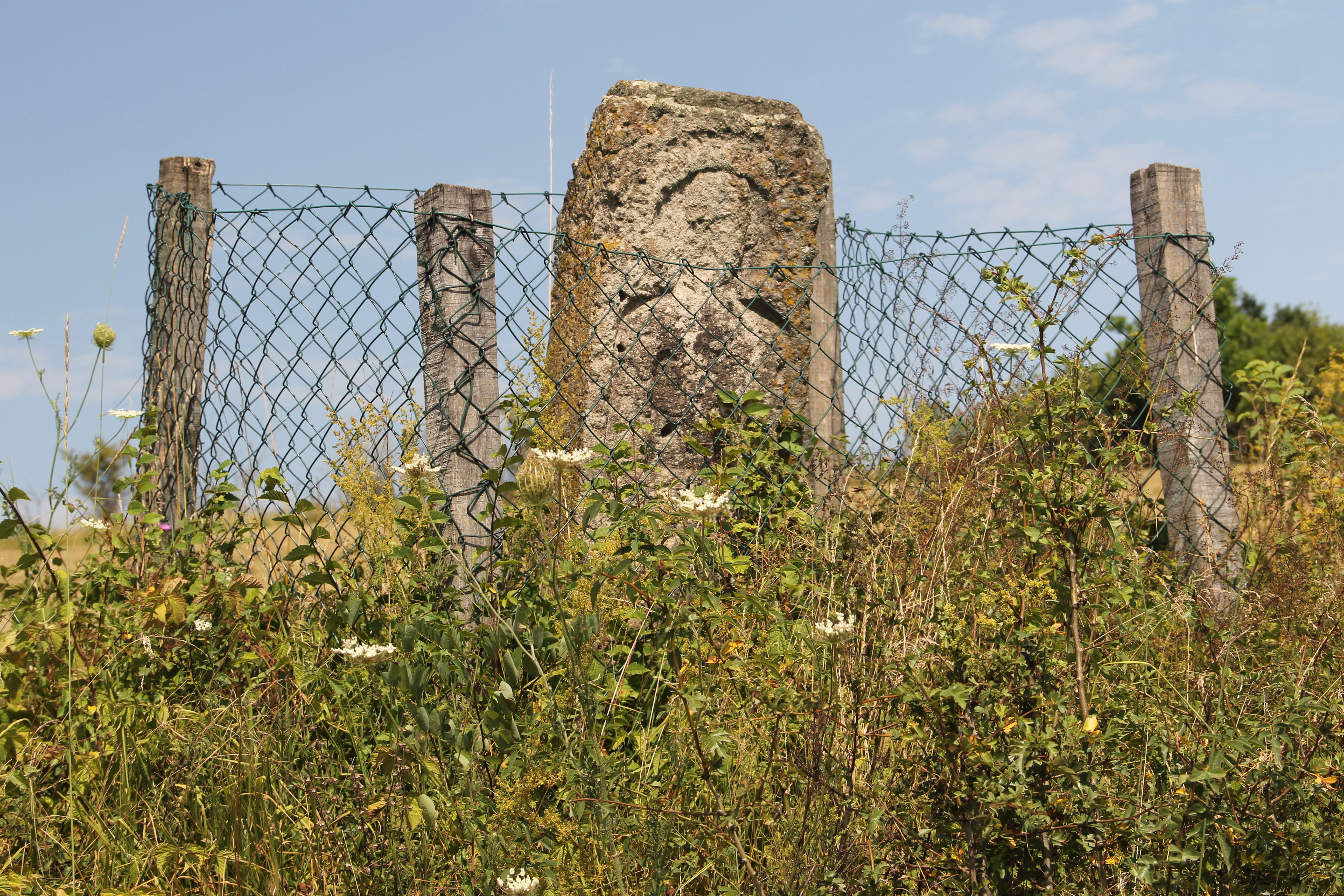 Roadside memorial to Miloje Djordjevic in the village of Davidovica (the municipality of Gornji Milanovac), Serbia.